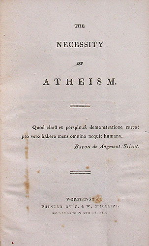 Title page of The Necessity of Atheism, by Percy Bysshe Shelley (1792-1822). Worthing: Printed by C & W. Phillips. Sold in London and Oxford. 1811.